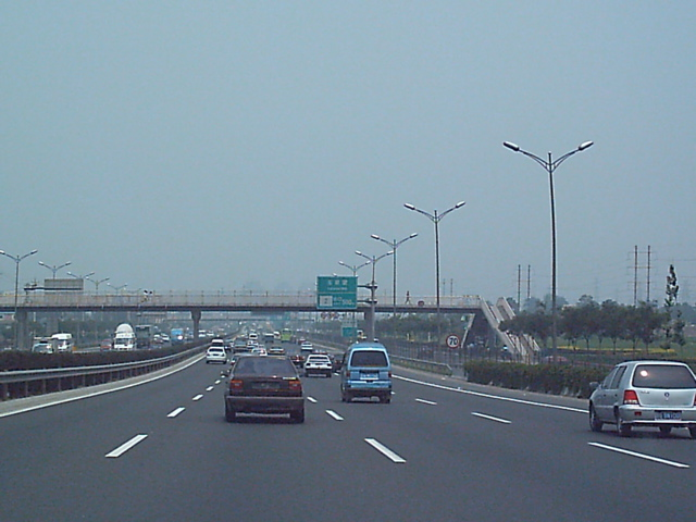 Jingkai Expressway heading into Beijing.